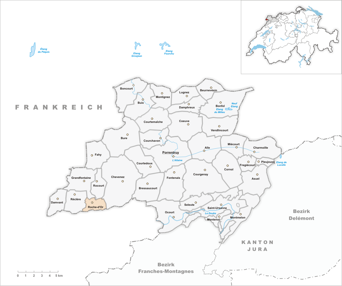 Municipality Roche-d'Or